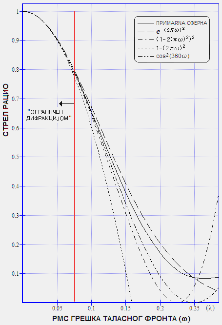 СТРЕЛ РАЦИО АПРОКСИМАЦИЈЕ